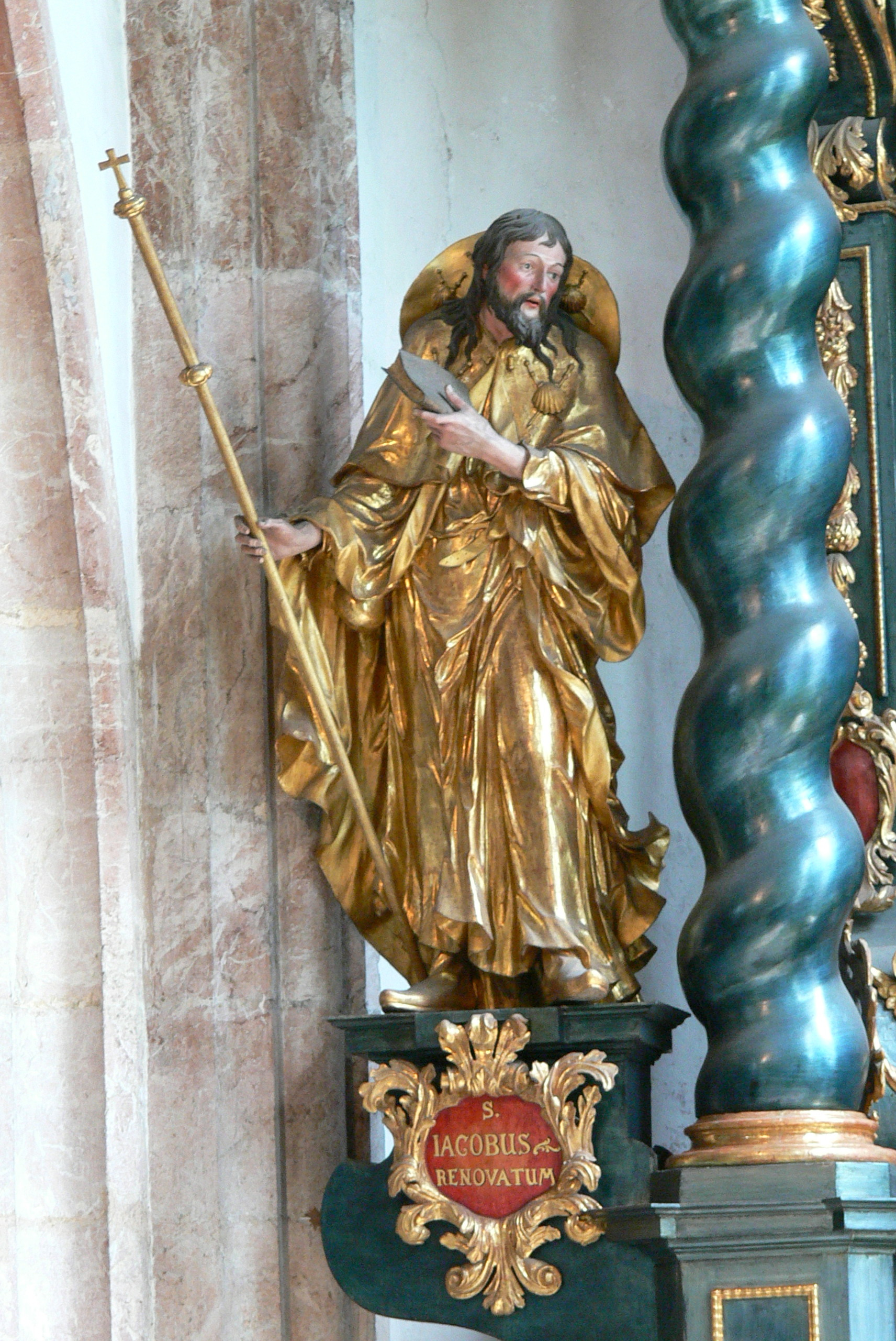 Rattenberg (Tyrol). Saint Virgil parish church - Miner church: Altar of Saint Anne ( 1718 ) by Meinrad Guggenbichler: Saint James the Greater.